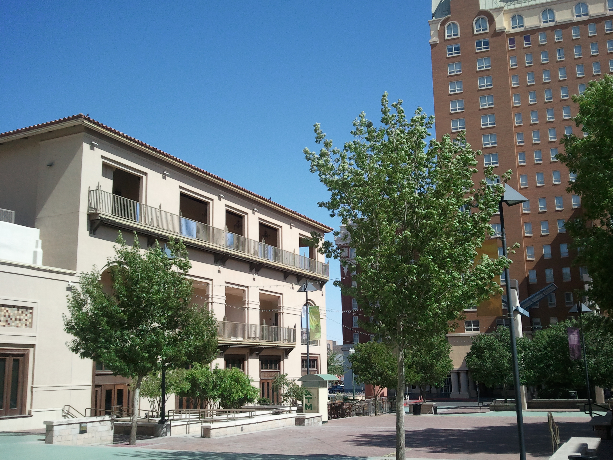 Downtown El Paso